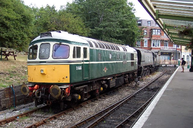 A British Rail Class 33 and a Bulleid Light Pacific at Swanage railway station